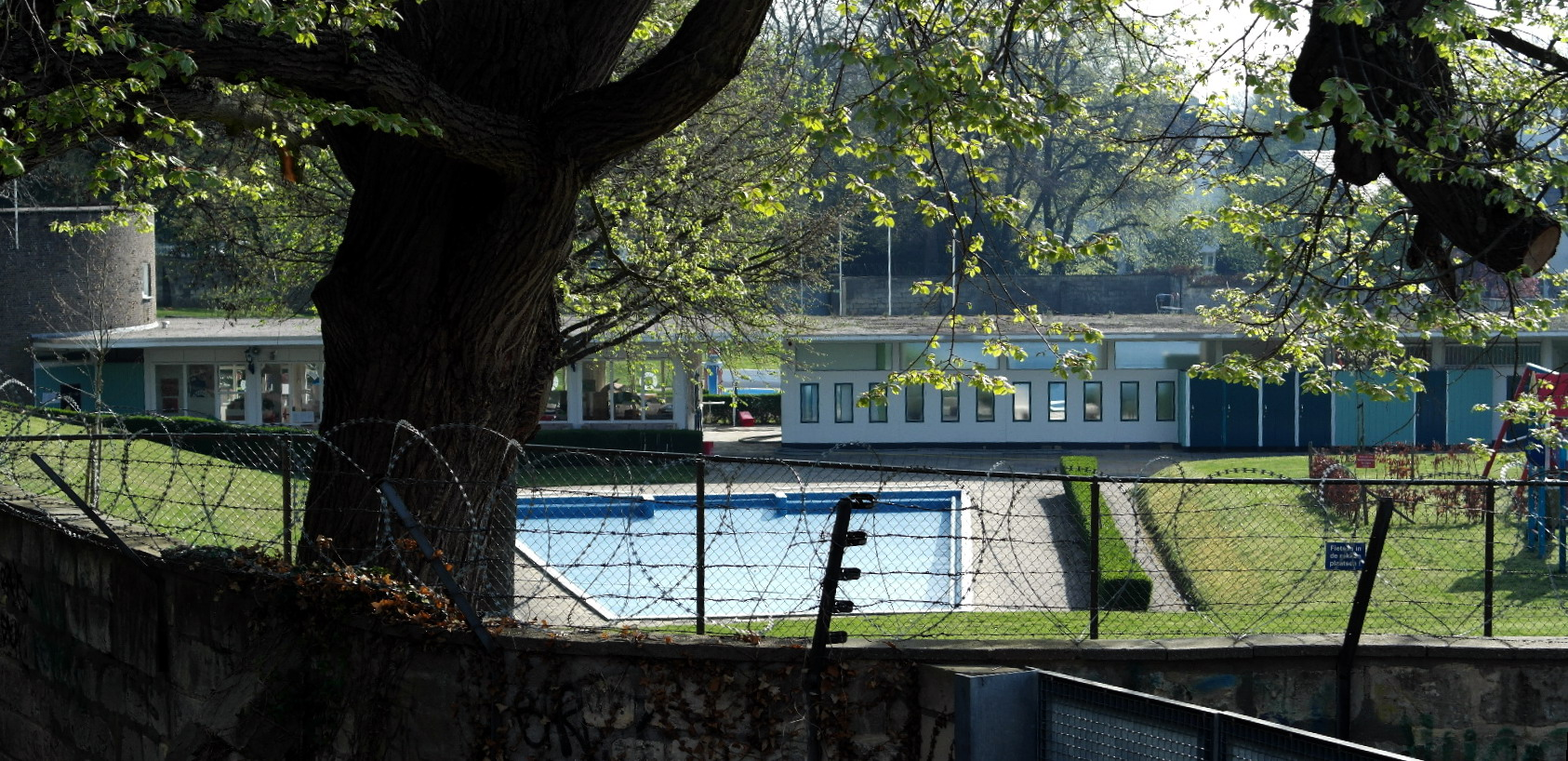 Maastricht, the Netherlands. View of public swimming pool Jekerdal near Waldeckpark.